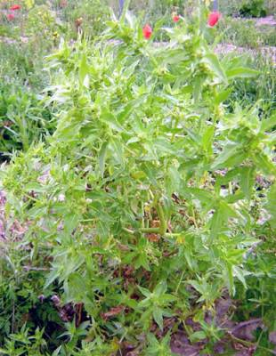 Mercurialis annua Source : [1]